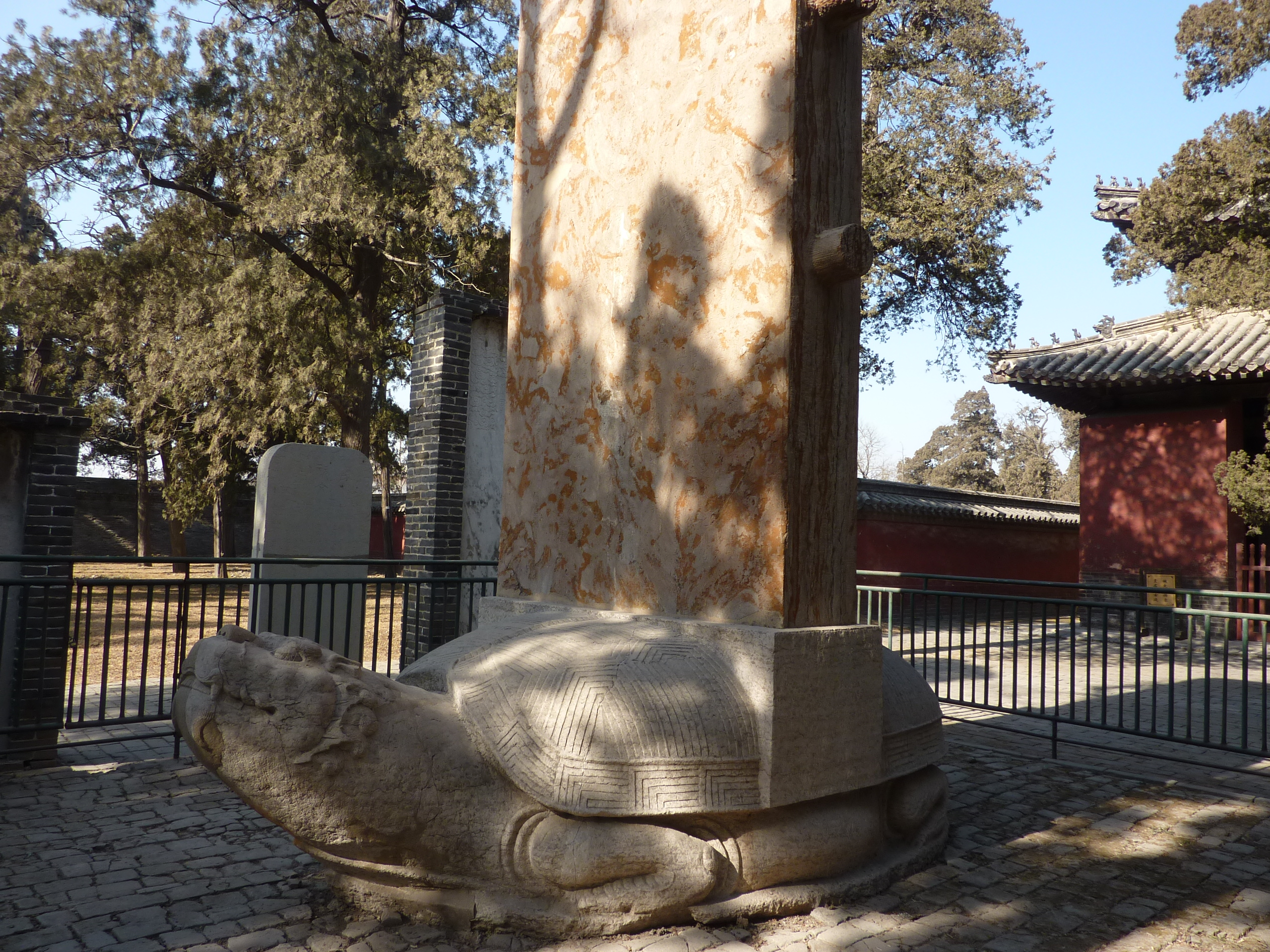 A tortoise-borne stele dated Year 17 of Hongzhi era (1504), with the emperor's inscription regarding the repair of the Temple of Confucius (Kong Miao). The stele is located outdoors (the original pavilion having fallen apart), in front of the western stele pavilion that's in front of the God of Literature Pavilion (奎文阁, Kui Wen Ge) on the grounds of the Temple of Confucius in Qufu.